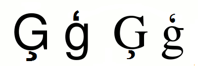 The letters Ģ and ģ from the Latvian alphabet